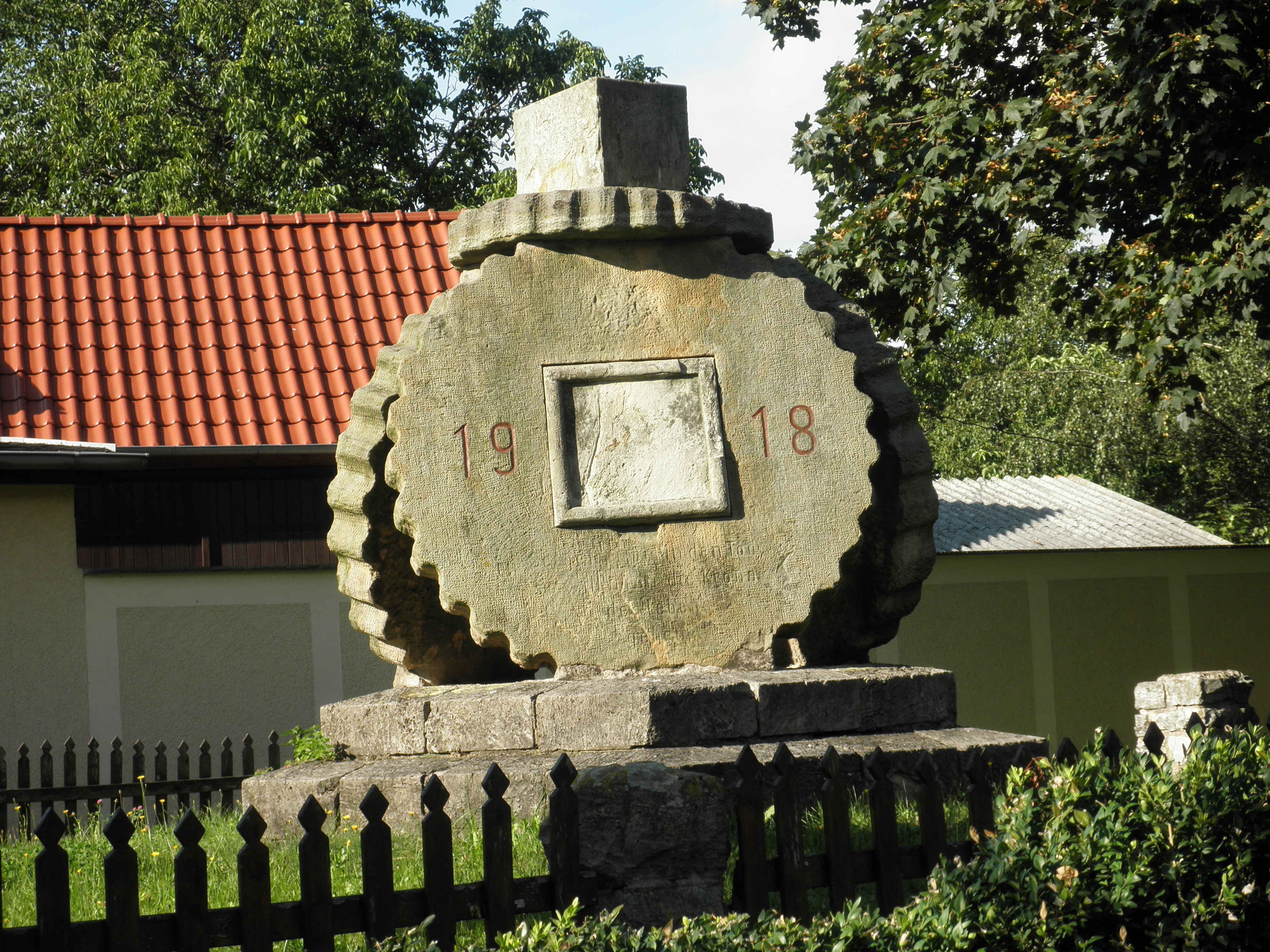 War Memorial in Utzberg in Thuringia